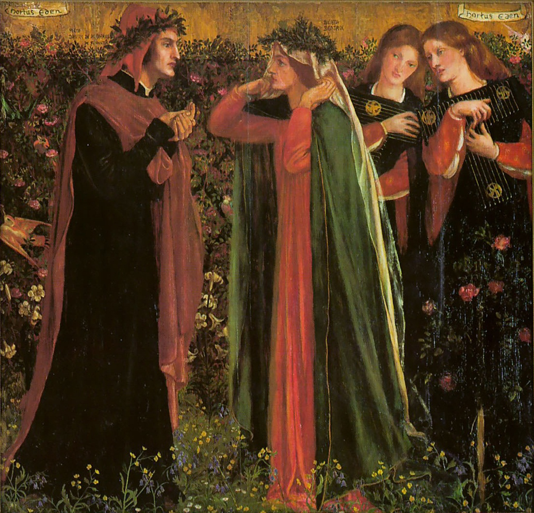 A cut from Dante Gabriel Rossetti, The Salutation of Beatrice.